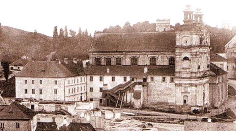 ab. 1870